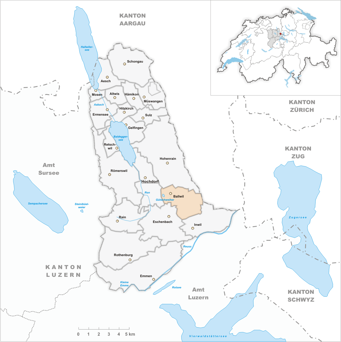 Municipality Ballwil